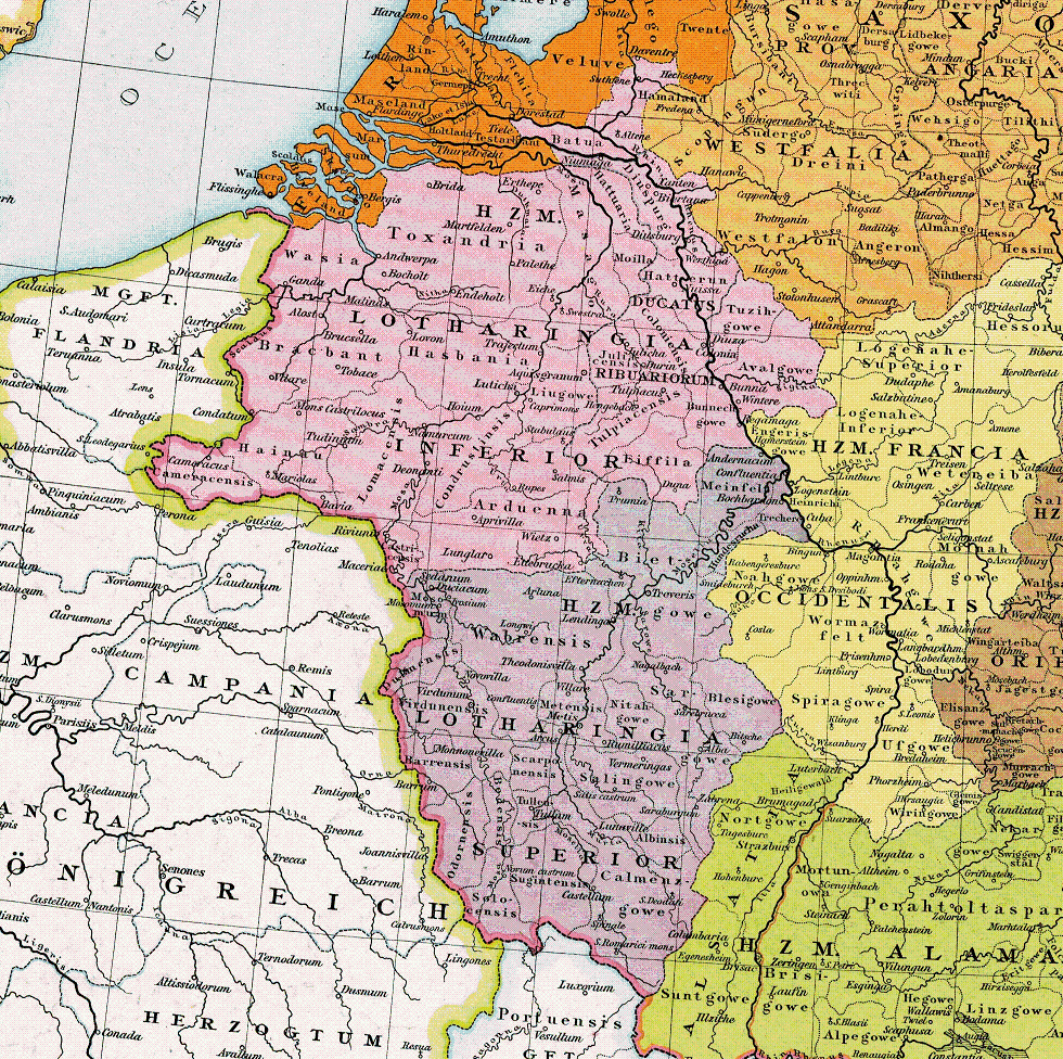 Lotharingia divided, around 1000: the pink is Lower Lorraine, the purple is Upper Lorraine. The orange is Frisia, which was effectively detached from Lotharingia.